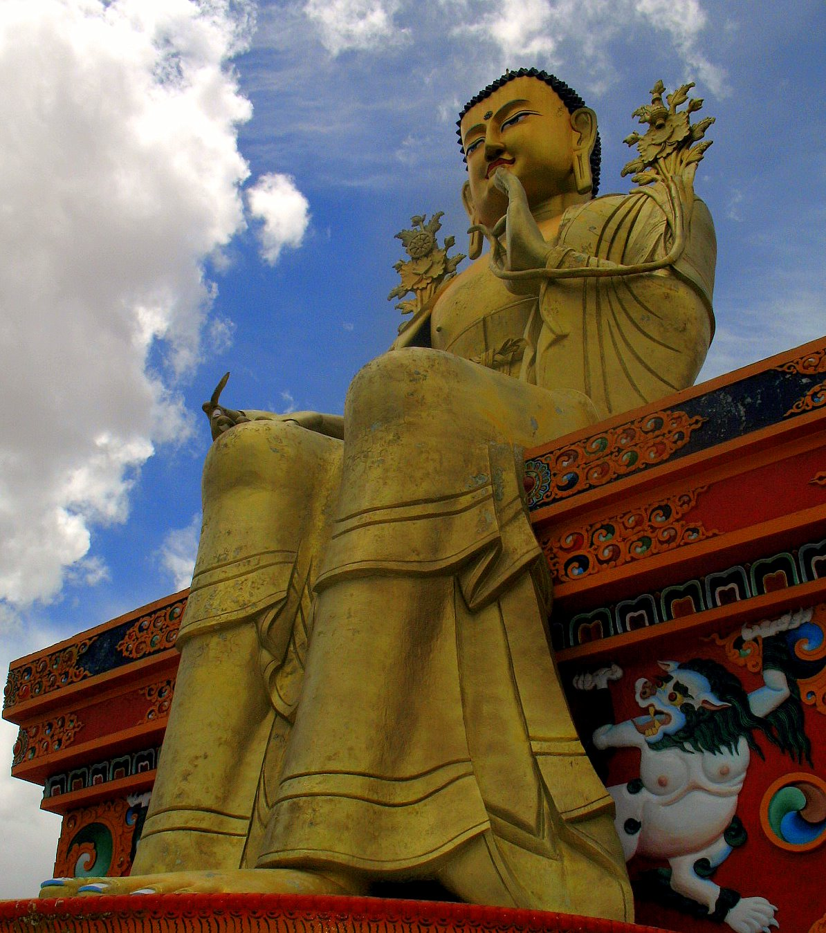 25 foot tall statue of the Sakyamuni Buddha in the Klu-kkhyil ("water spirits") monastery in Likir, Ladakh.